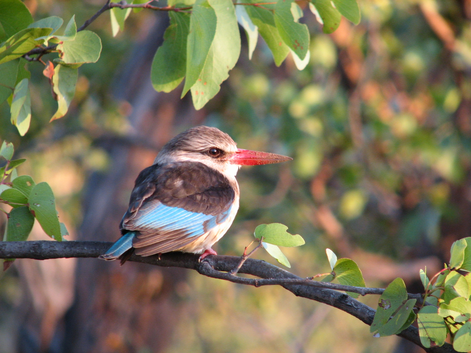 Photo taken in the Kruger National Park of a Brown-hooded KingFisher (Halcyon albiventris near Mopanie rest camp